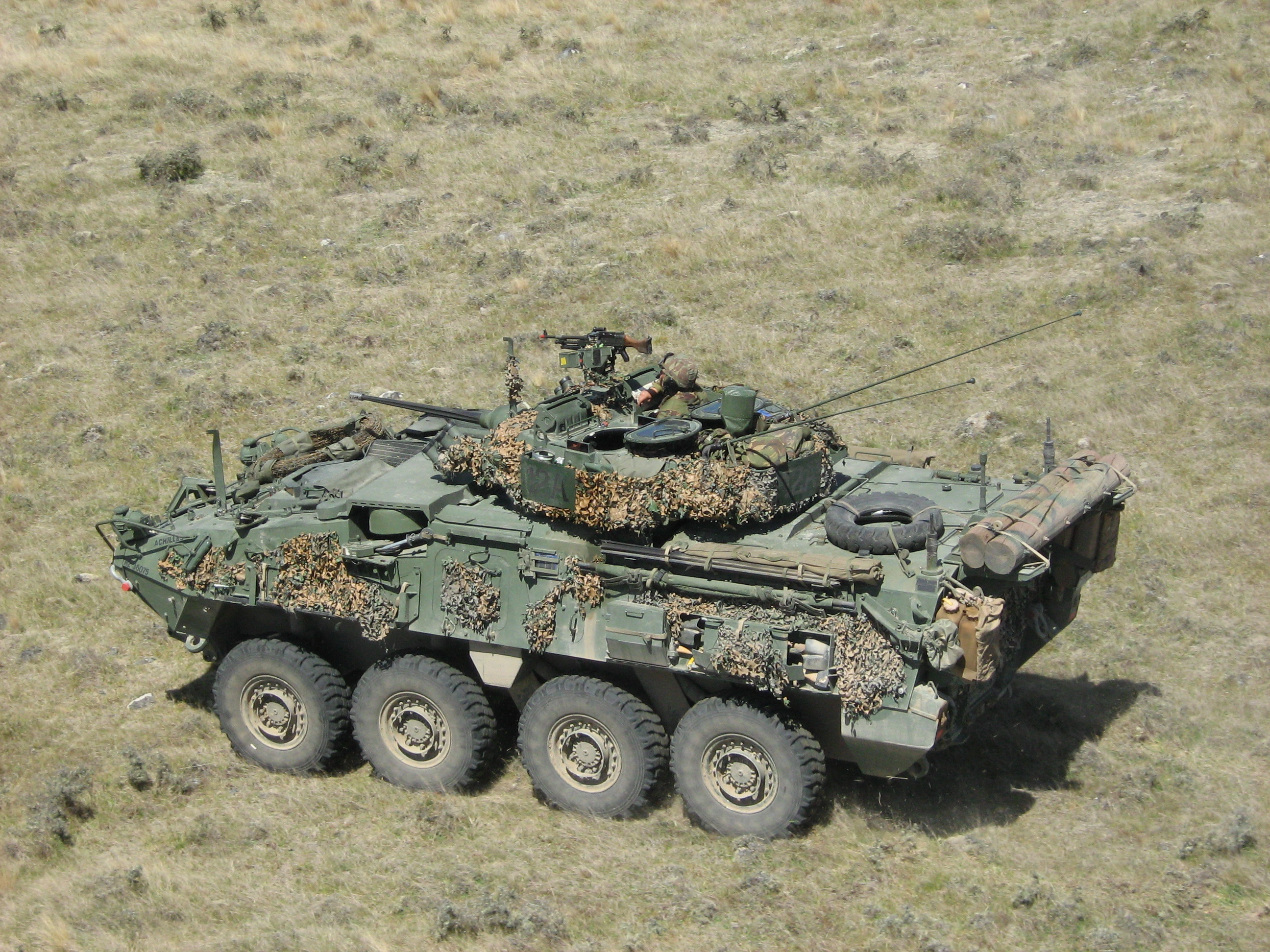 My photo dated 1 Nov 07